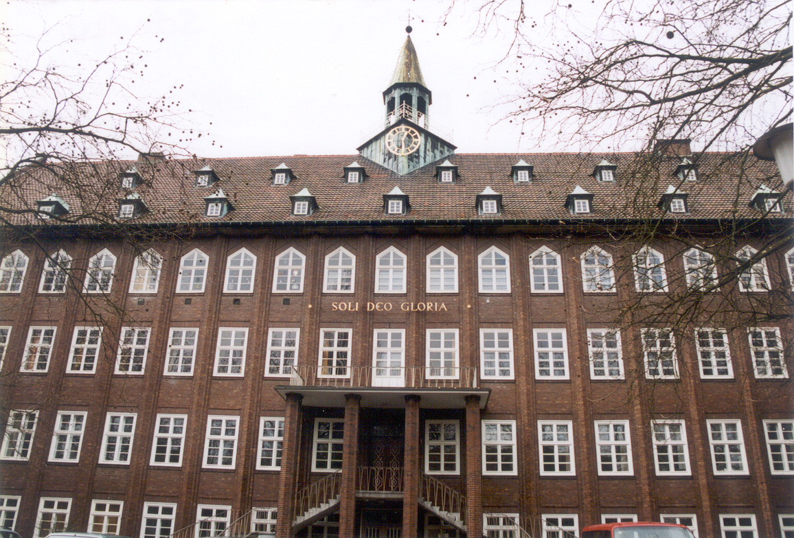 Evangelisch Stiftisches Gymnasium, Gütersloh This image shows a heritage building in Germany, located in the North Rhine-Westphalian city Gütersloh (no. A 042).